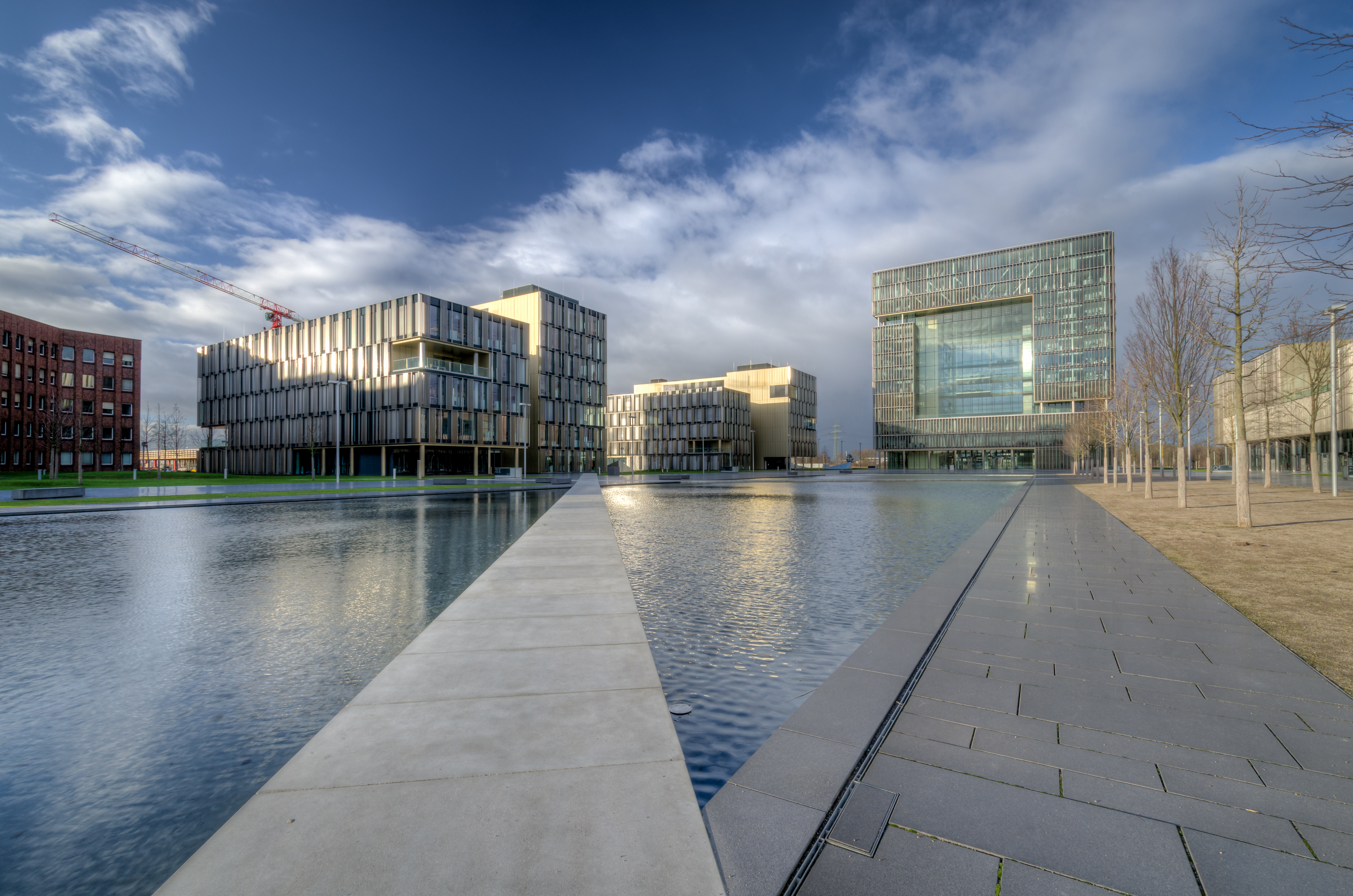 Corporate Headquarter of ThyssenKrupp, partial view